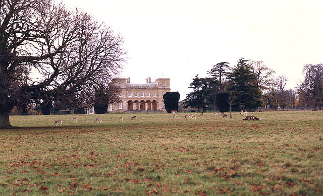 Hatch Court. Note the Fallow deer